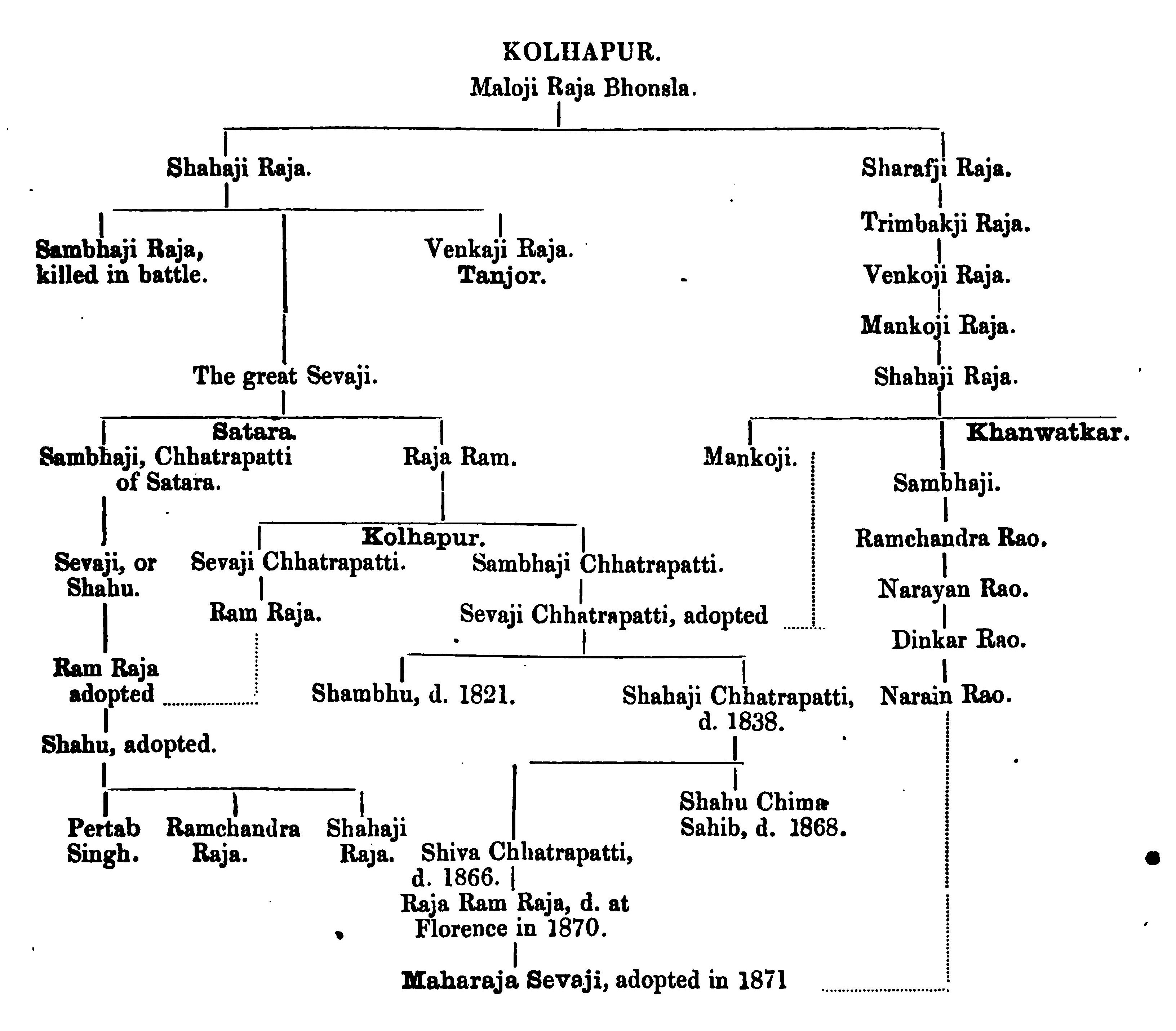 Geneology of Kolhapur Maharajas